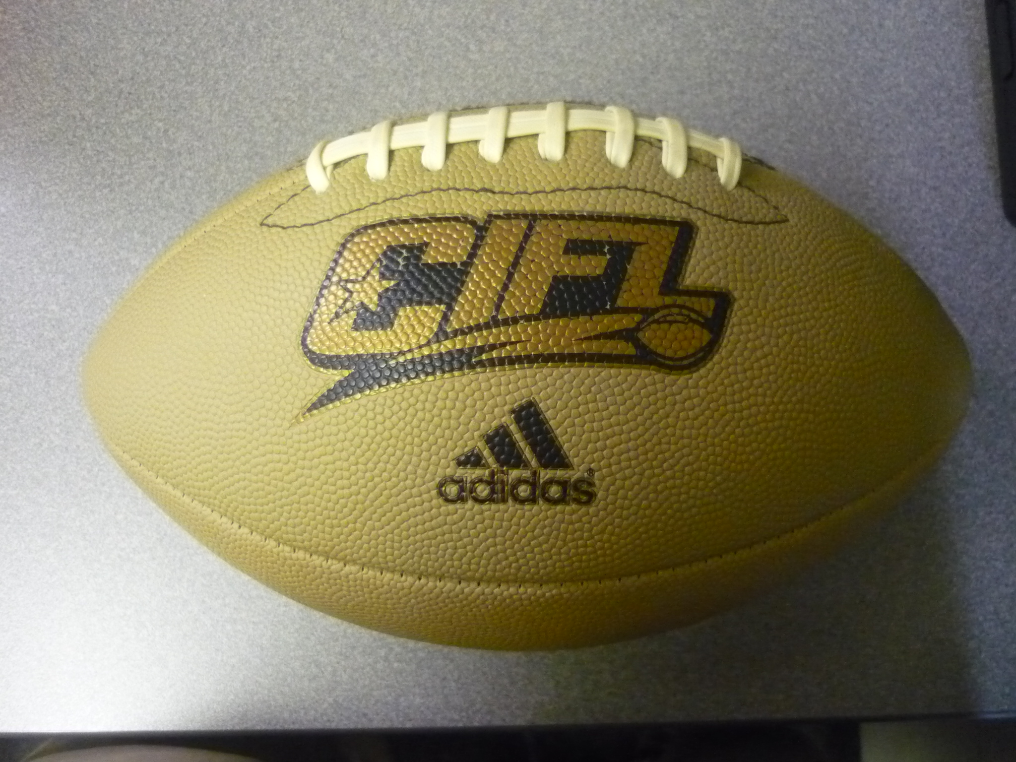 Official Football of the Continental Indoor Football League